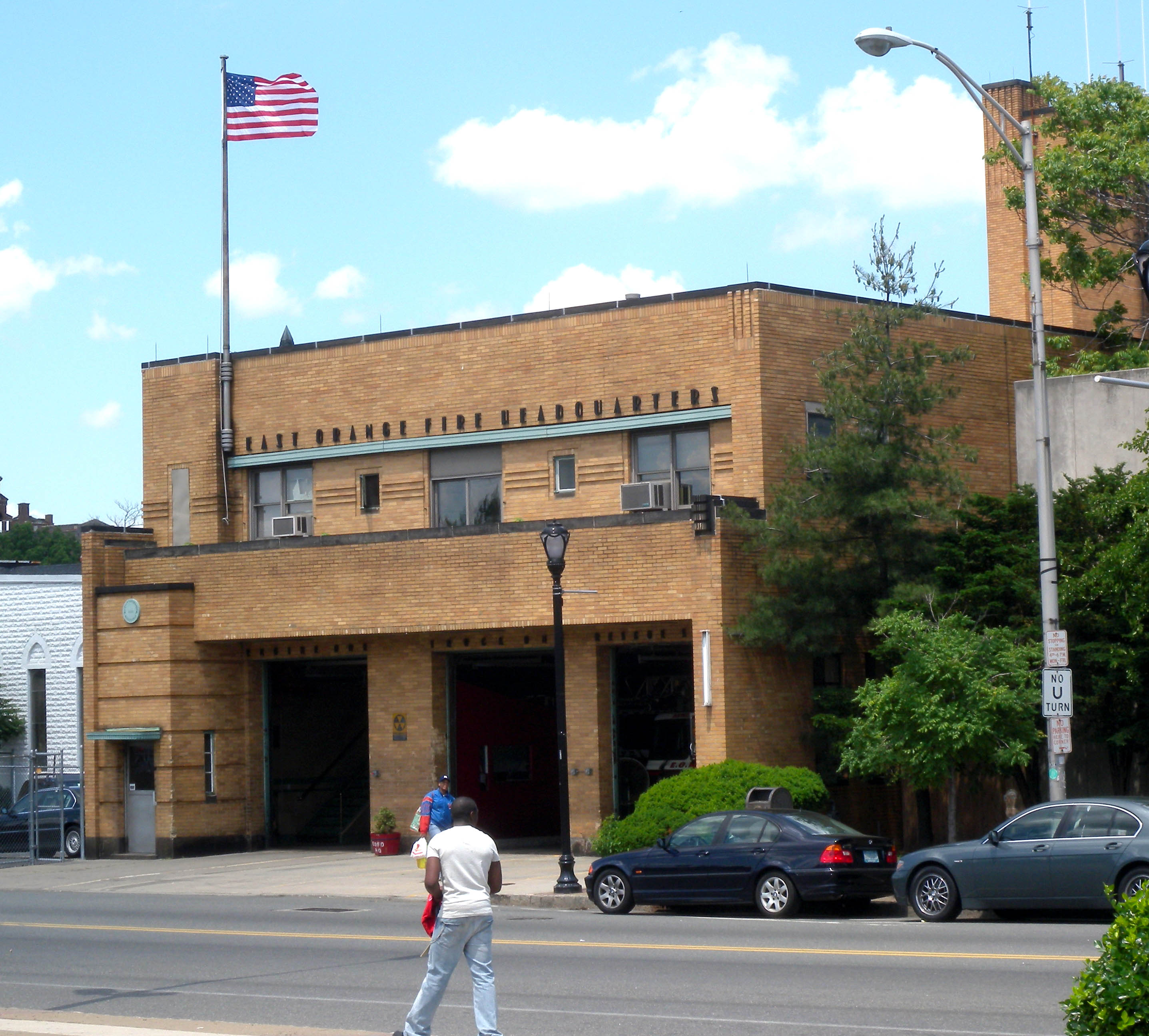 Looking north across Main Street, east of Ashland, at East Orange, New Jersey fire headquarters on a mostly sunny midday.